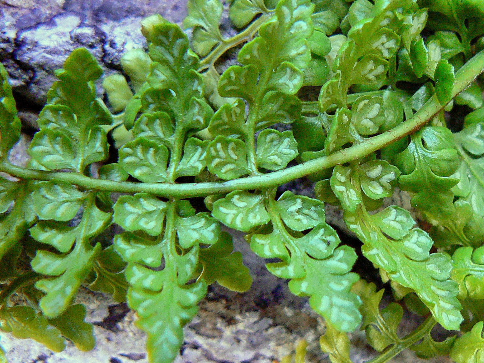 Asplenium foreziense, Île de Port Cros, Var, France. Detail of sporangia.